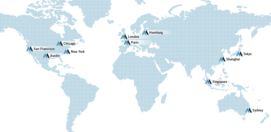 Marin Software's Global Office